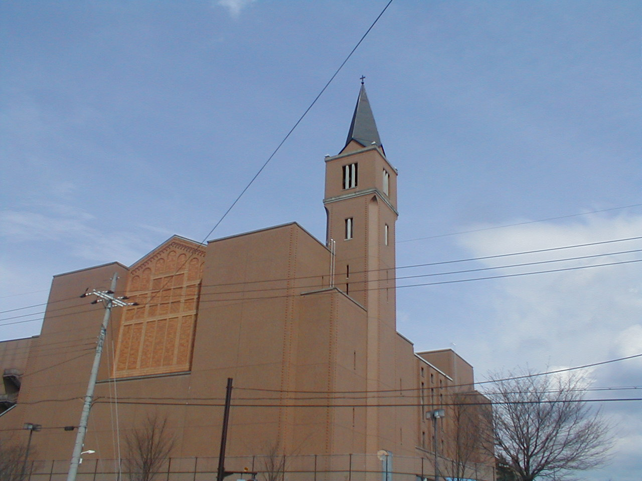 Doshisha University, Kyotanabe city, Kyoto, Japan